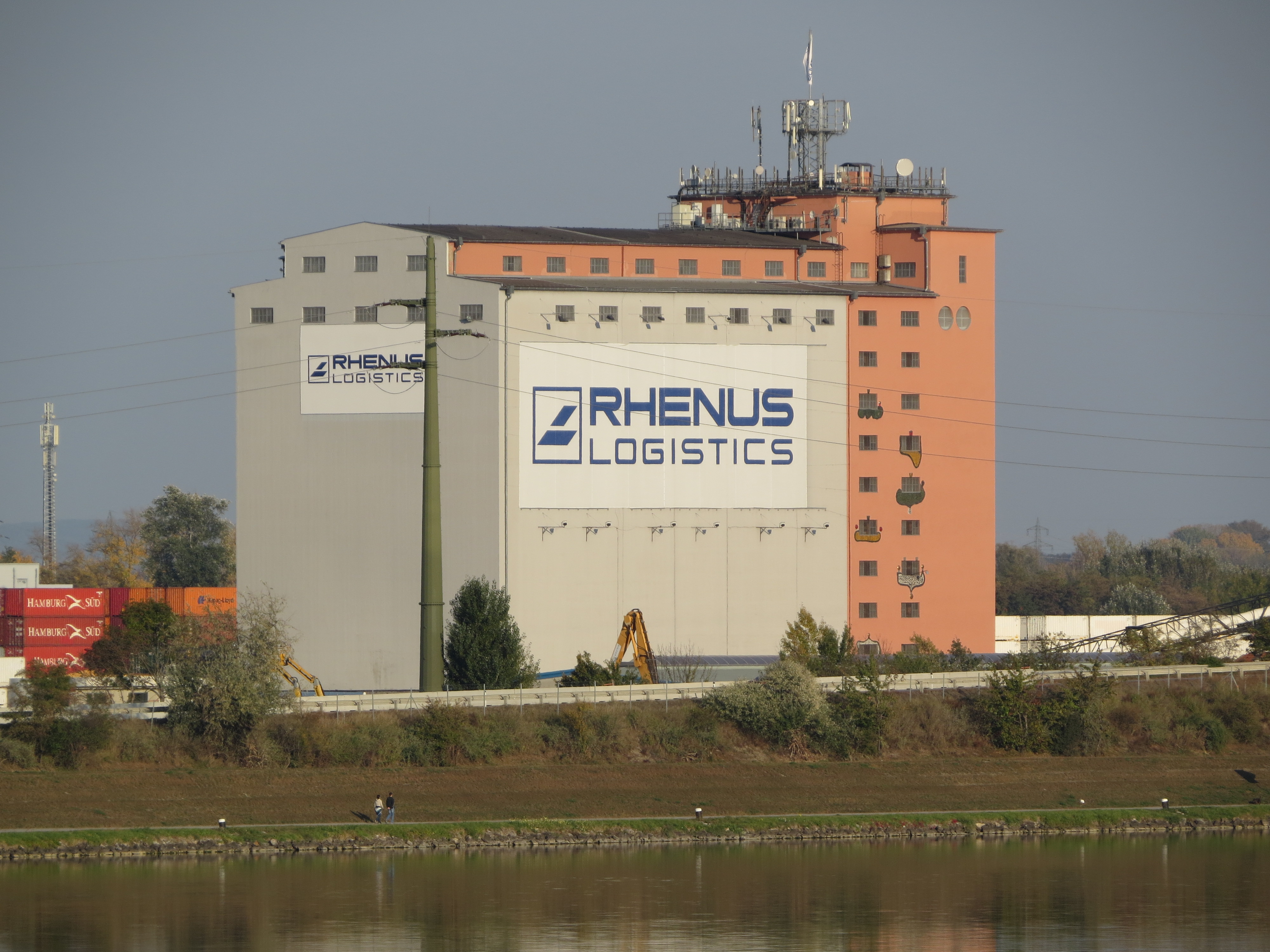 Rhenus Logistics in Krems an der Donau, Austria